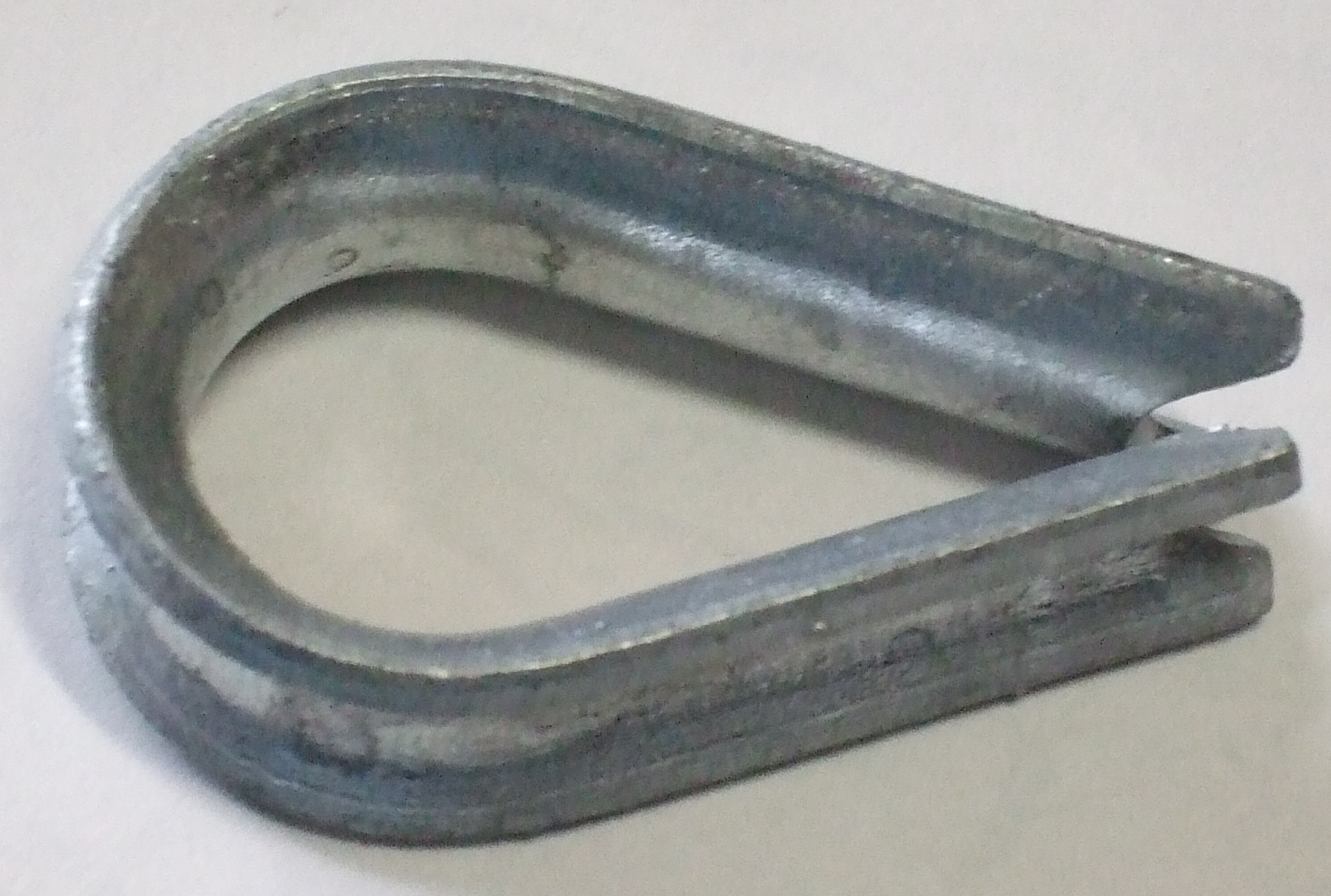 A thimble for the stay of radio antennae.